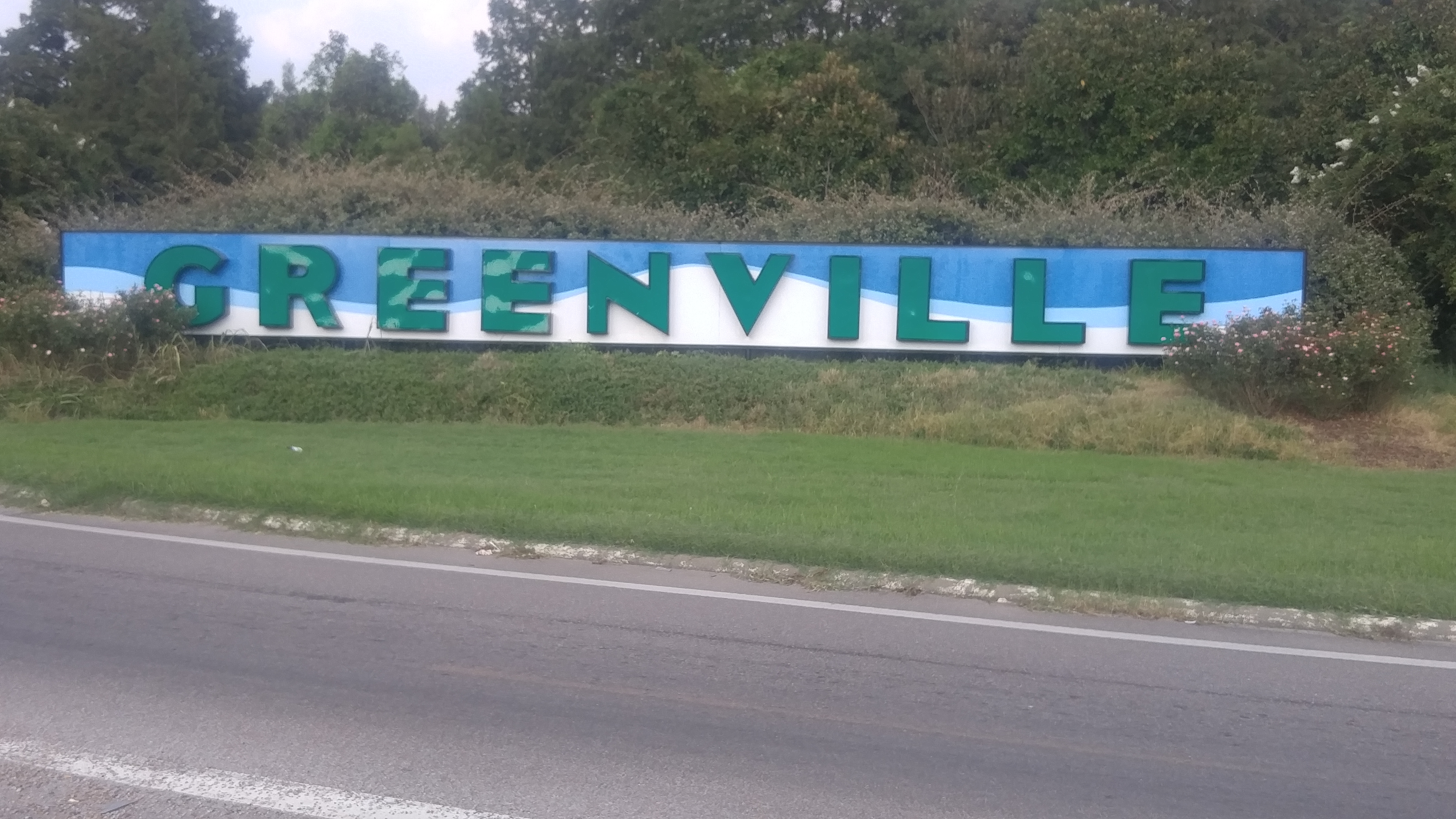 Welcome sign on US Highway 82